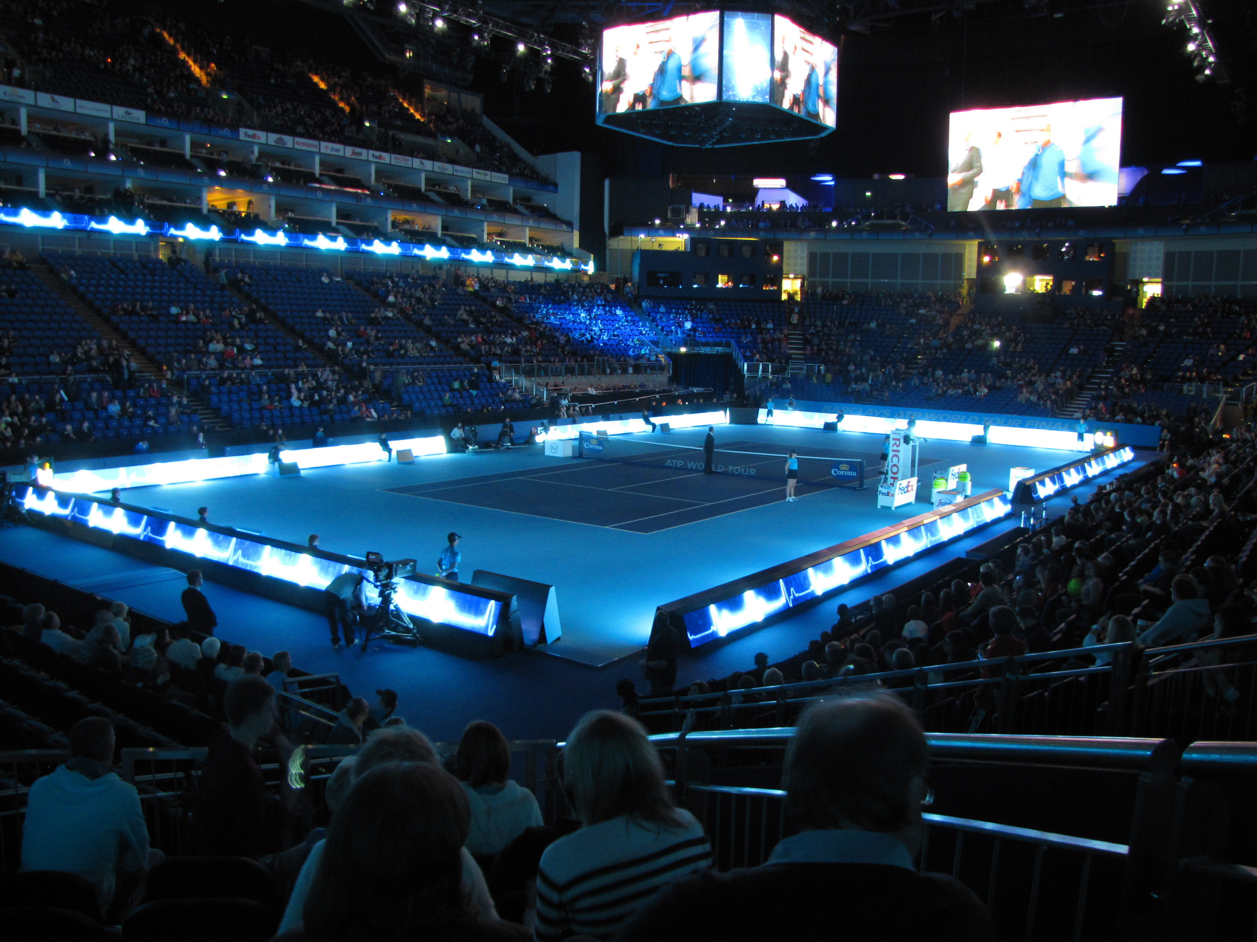 2012 APT World Tour final series at the O2 arena